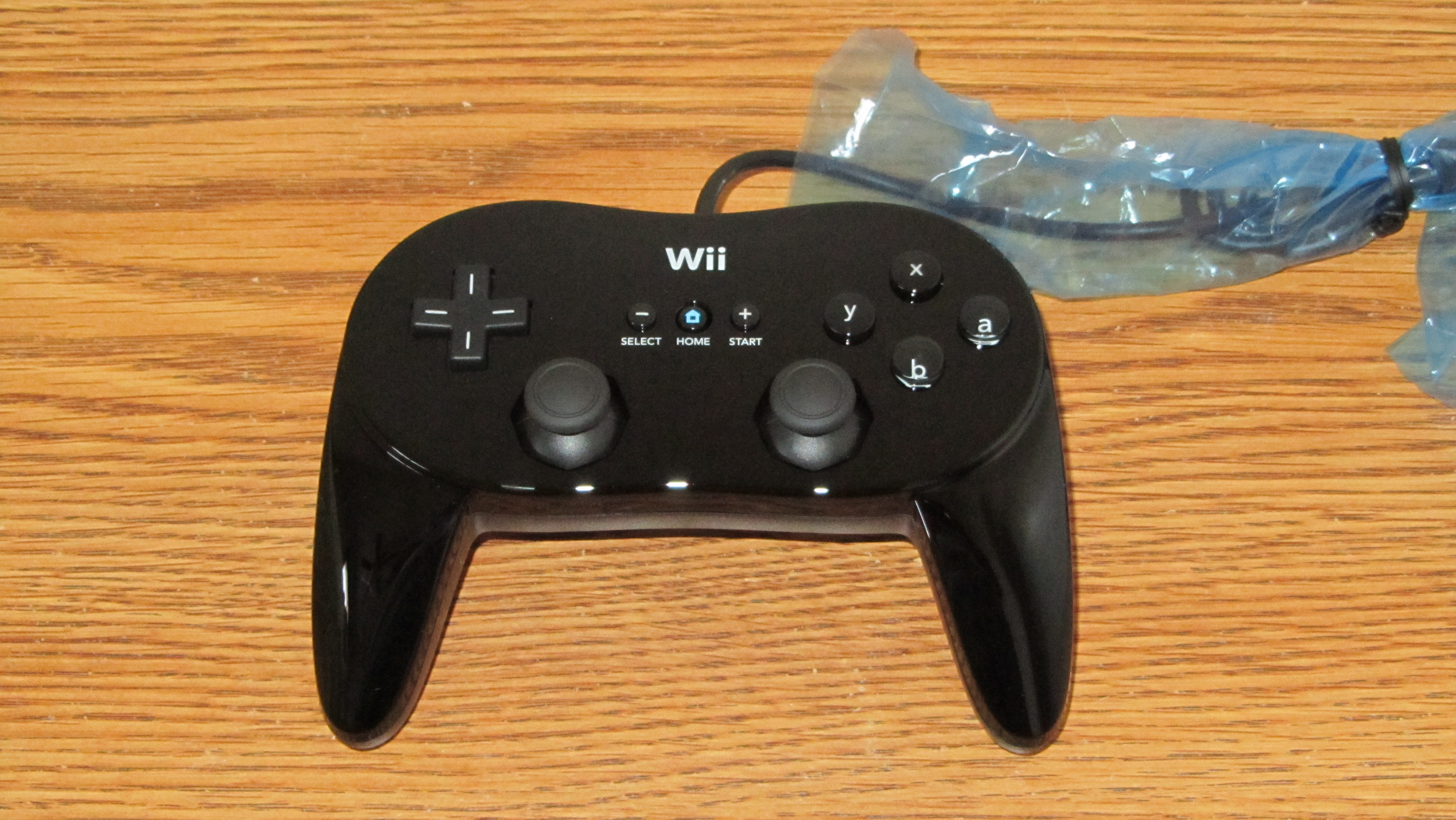 A newly unboxed Black Classic Controller Pro that was bundled with Monster Hunter Tri.